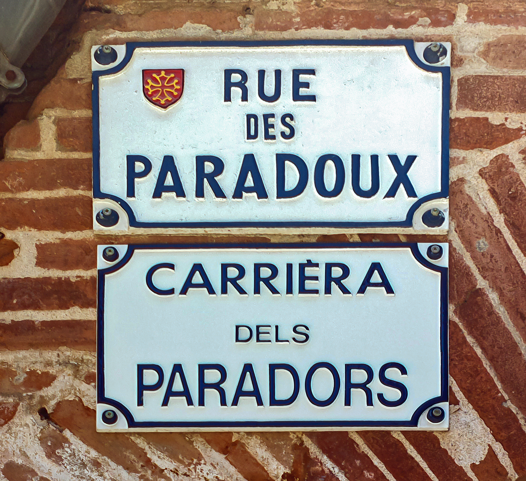 Rue des Paradoux, in Toulouse - Street name sign. They have the particularity of being: in French and Occitan.